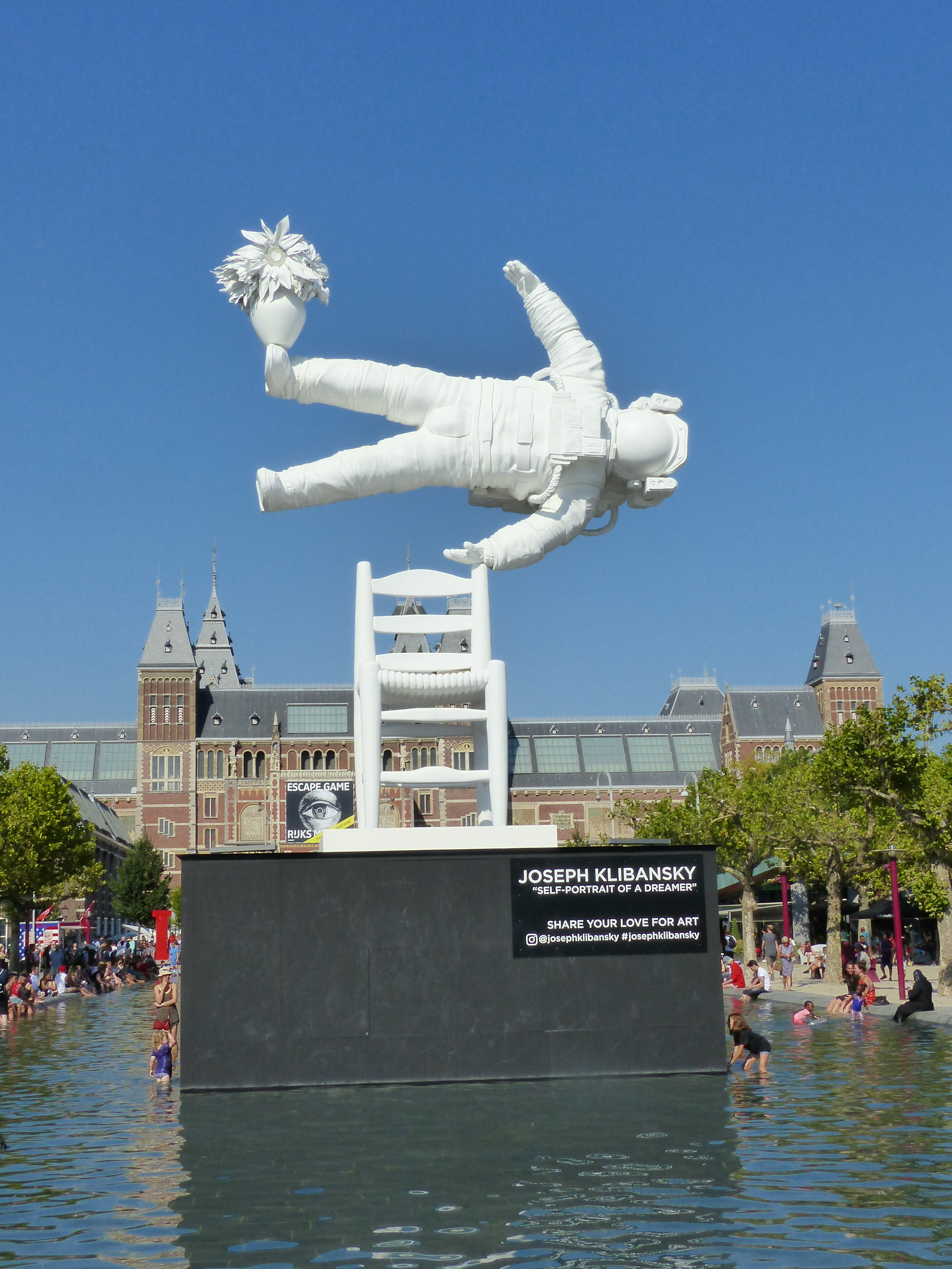 Self-portrait of a Dreamer. Joseph Klibansky (NL- 1984). Year 2016 Materials acrylic paint fiber-reinforced plastic iron resin silk flowers. Museumplein, Amsterdam, Kingdom of the Netherlands.